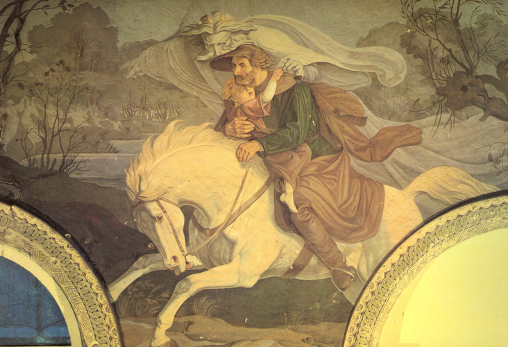 Fresko Dittersbach, Belvedere Schönhöhe